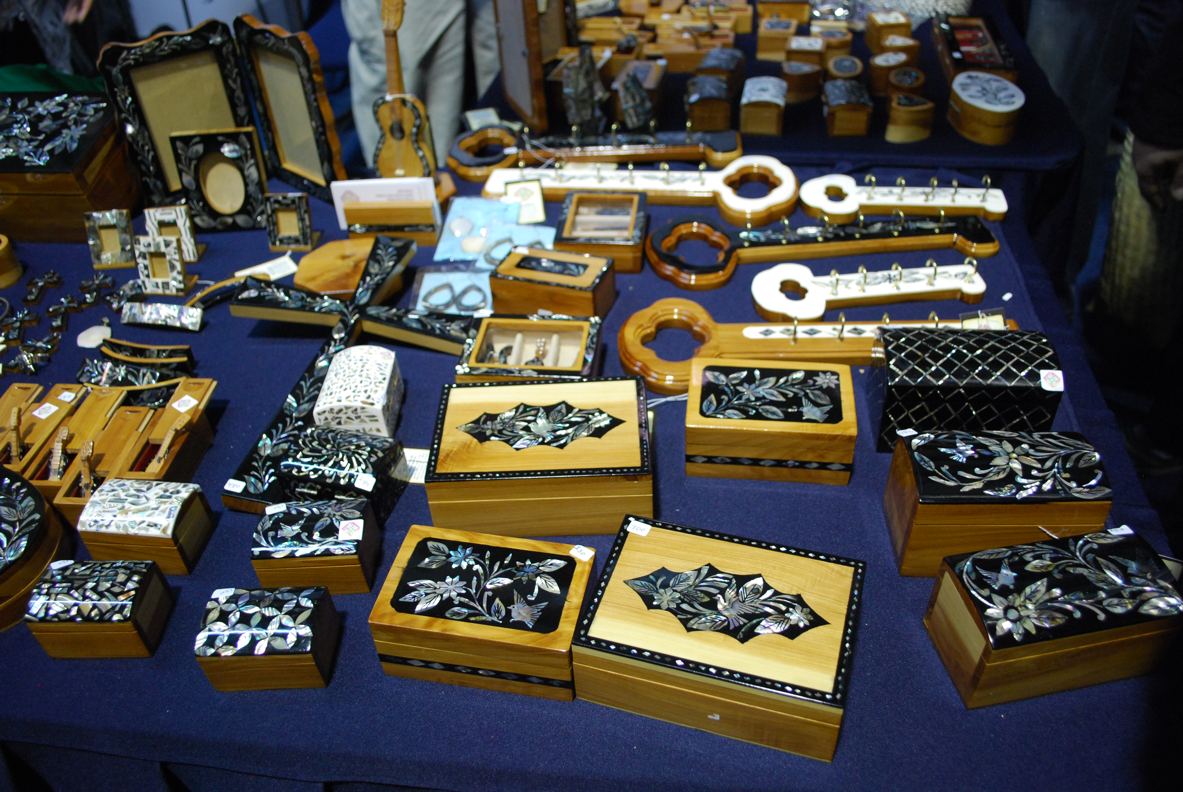 Wood items with inlaid shell from Ninth, Ixmiquilpan, Hidalgo at the Expo de los Pueblos Indígenas in Mexico City